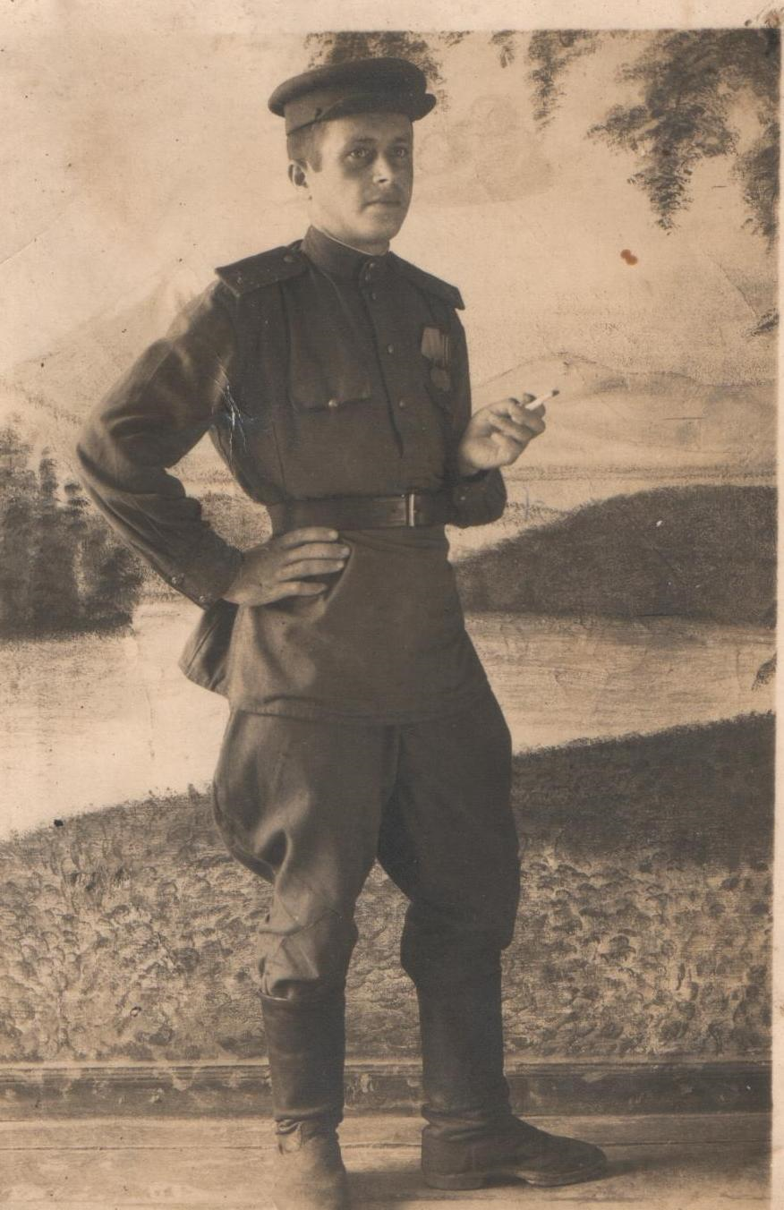 Семенчук Михайло Григорович 1920р.н.